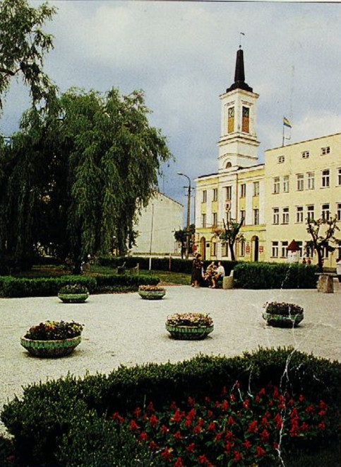 City of Ostroleka (Poland), Town Hall in the year 1996.